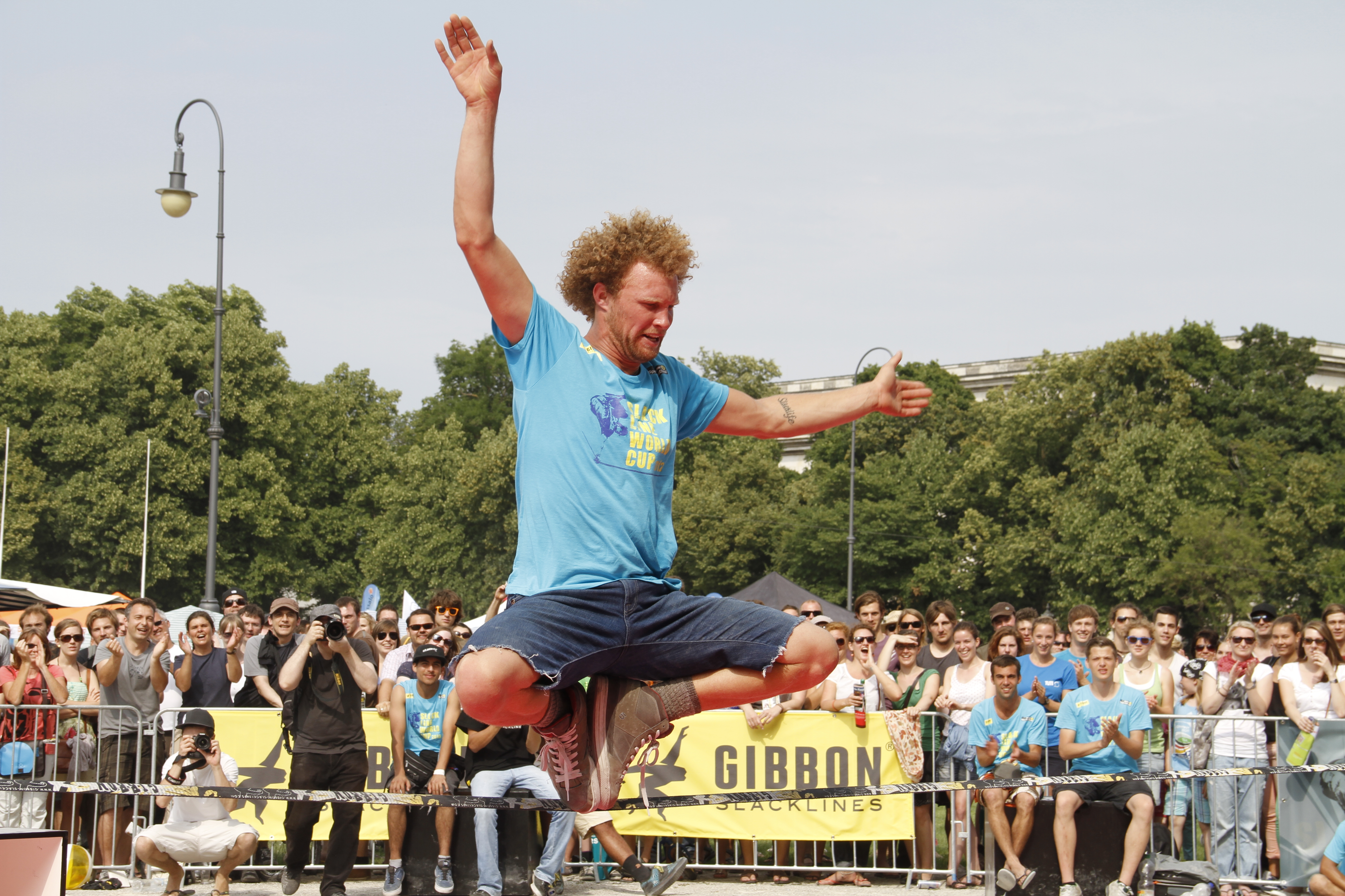 Andy Lewis, slackline and stunt artist and performer, at the slackline world cup event 2012-07-01 in Munich, Germany